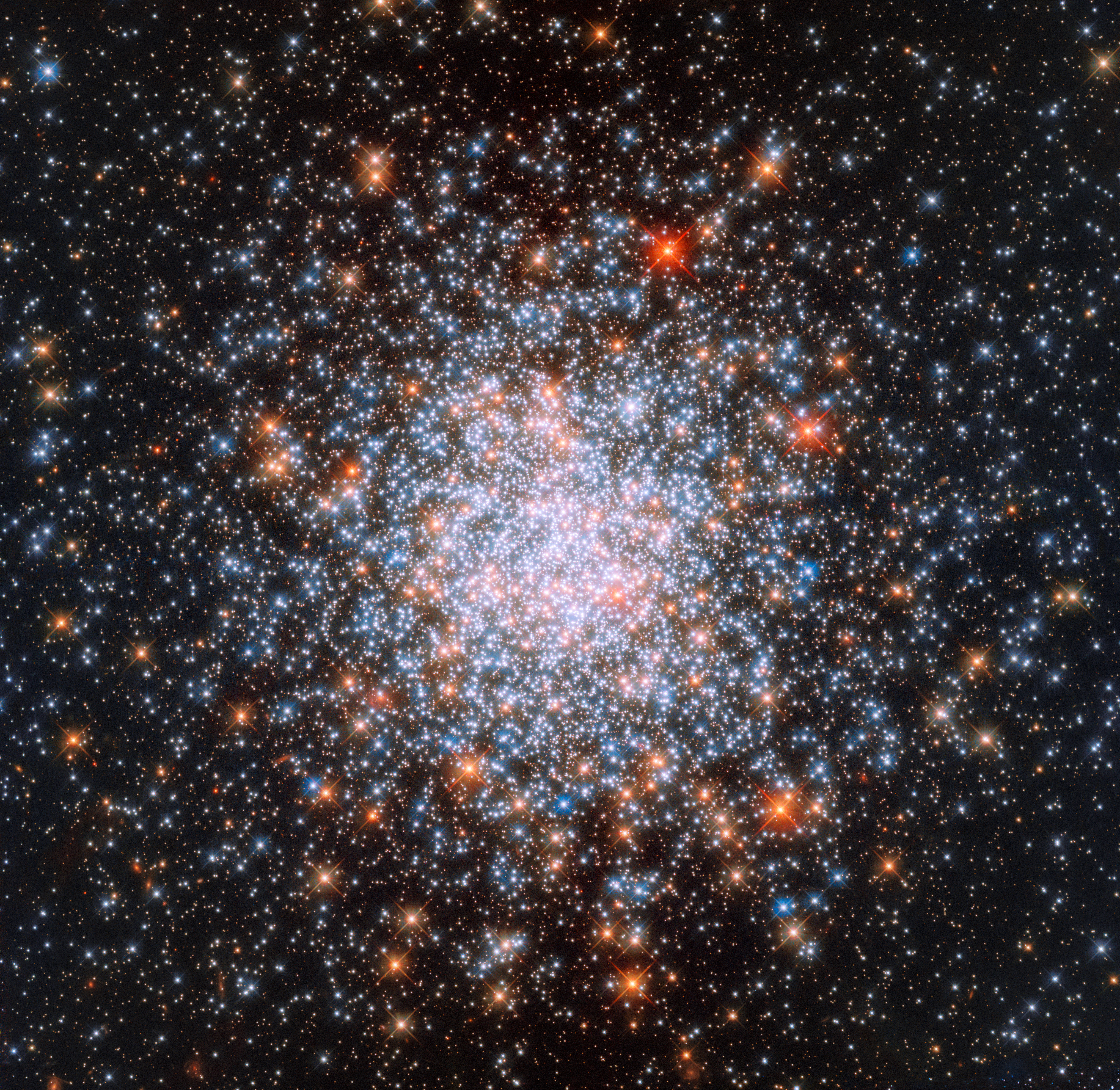 Star clusters are common structures throughout the Universe, each made up of hundreds of thousands of stars all bound together by gravity. This star-filled image, taken with the NASA/ESA Hubble Space Telescope’s Wide Field Camera 3 (WFC3), shows one of them: NGC 1866. NGC 1866 is found at the very edges of the Large Magellanic Cloud, a small galaxy located near to the Milky Way. The cluster was discovered in 1826 by Scottish astronomer James Dunlop, who catalogued thousands of stars and deep-sky objects during his career. However, NGC 1866 is no ordinary cluster. It is a surprisingly young globular cluster situated close enough to us that its stars can be studied individually — no mean feat given the mammoth distances involved in studying the cosmos! There is still debate over how globular clusters form, but observations such as this have revealed that most of their stars are old and have a low metallicity. In astronomy, ‘metals’ are any elements other than hydrogen and helium; since stars form heavier elements within their core as they carry out nuclear fusion throughout their lifetimes, a low metallicity indicates that a star is very old, as the material from which it formed was not enriched with many heavy elements. It’s possible that the stars within globular clusters are so old that they were actually some of the very first to form after the Big Bang. In the case of NGC 1866, though, not all stars are the same. Different populations, or generations, of stars are thought to coexist within the cluster. Once the first generation of stars formed, the cluster may have encountered a giant gas cloud that sparked a new wave of star formation and gave rise to a second, younger, generation of stars — explaining why it seems surprisingly youthful.